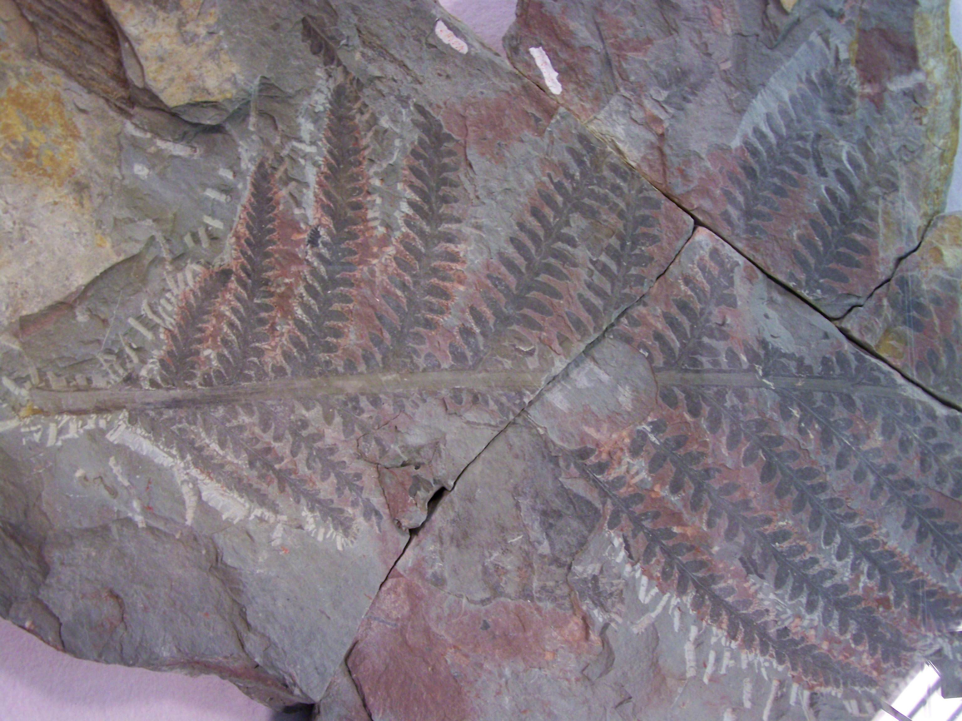 Fossil leaf of the fern Rhachiphyllum schenkii (Hayer) Kerp 1988, Lower Permian. Fossil is ca. 80 cm long. Collection of the Universiteit Utrecht.